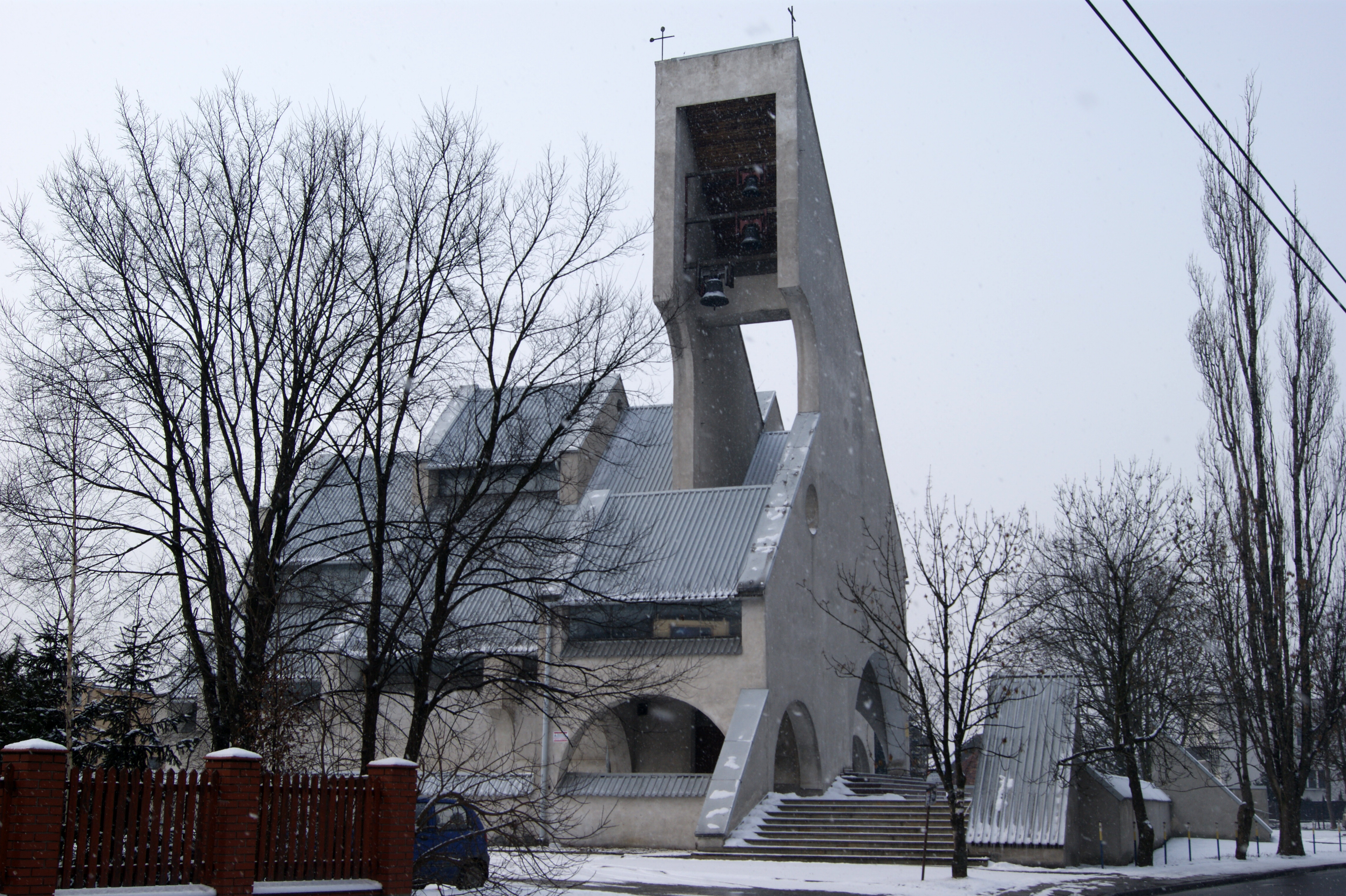 Church of Immaculate Heart of Mary, 100 Pollanki street, Krakow, Poland